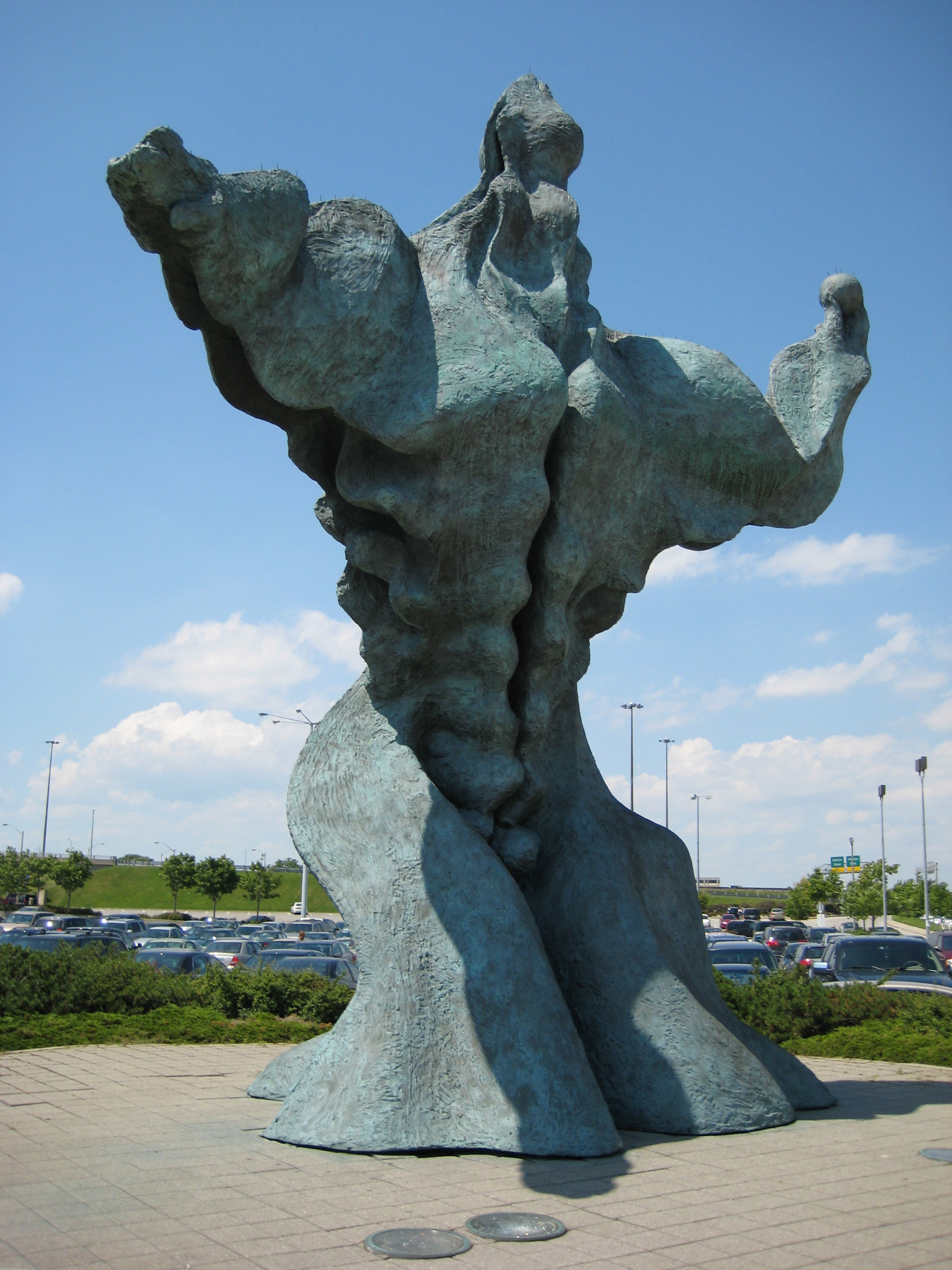 Universal Man by Gerald Gladstone (1929–2005) outside the Yorkdale Shopping Centre in Toronto, Canada.